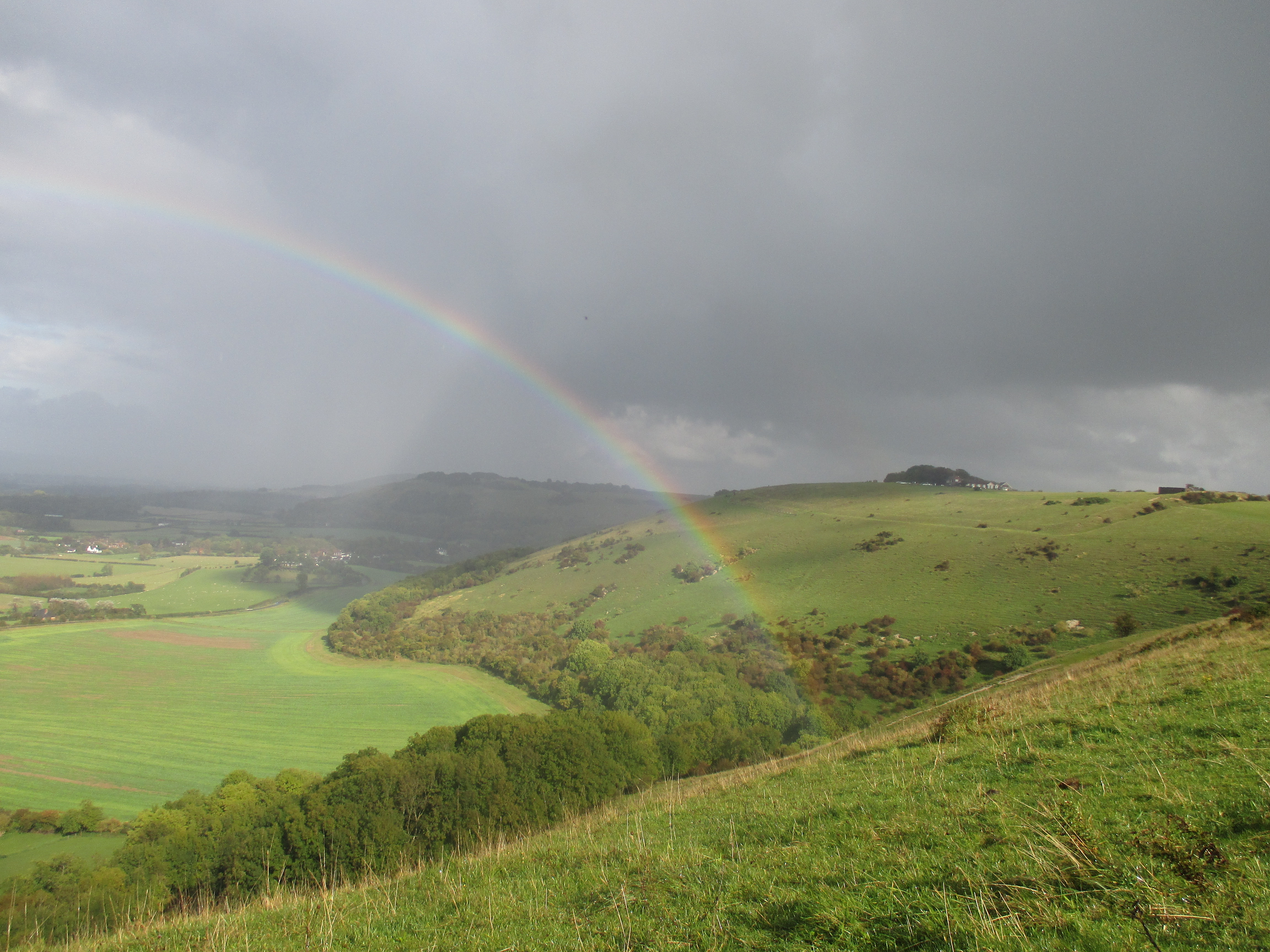 Photographed from a point on the South Downs half a mile to the south-east of Fulking, West Sussex, looking north-east towards Poynings and the Devil's Dyke.